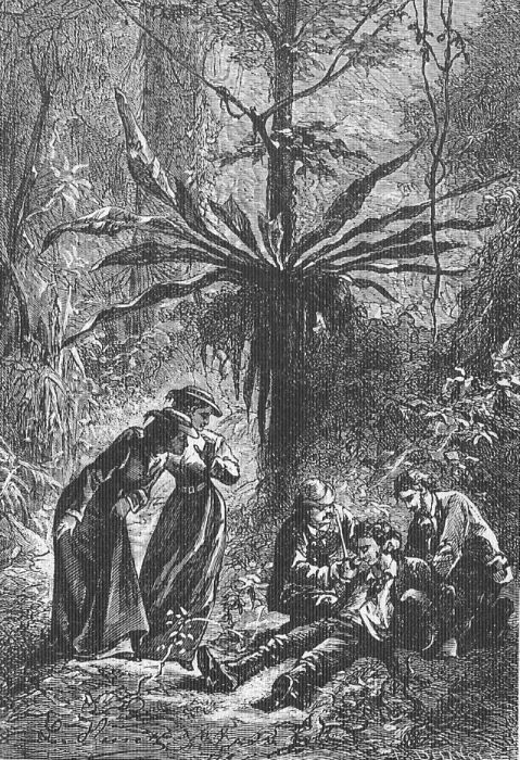 An illustration from Jules Verne's novel "Eight Hundred Leagues on the Amazon".